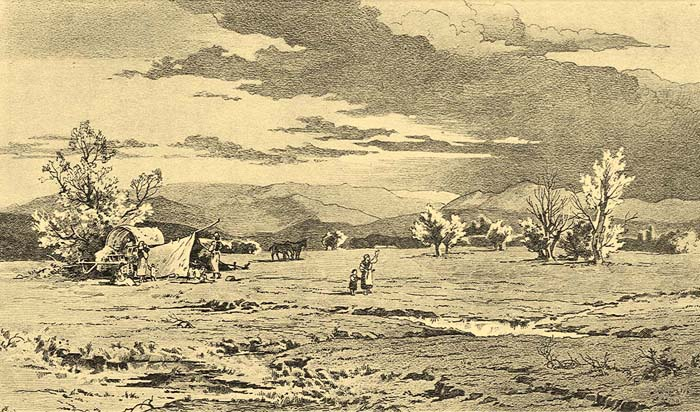 The Battlefield of Kenyérmező (Breadfield)